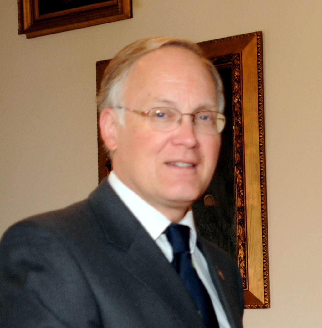 Governor of Vermont Jim Douglas (cropped from "Vermont Gov. Jim Douglas is presented with a gift by Lt. Gen Abdoulaye Fall, the chief of the defense staff in Senegal, while Maj. Gen Zoran Dimor of Macedonia looks on. Both officers were in Burlington, Vt., for a State Partnership Program workshop with the Vermont National Guard from May 12-14, 2009. (Photo by Senior Airman Victoria Greenia, Vermont National Guard)"